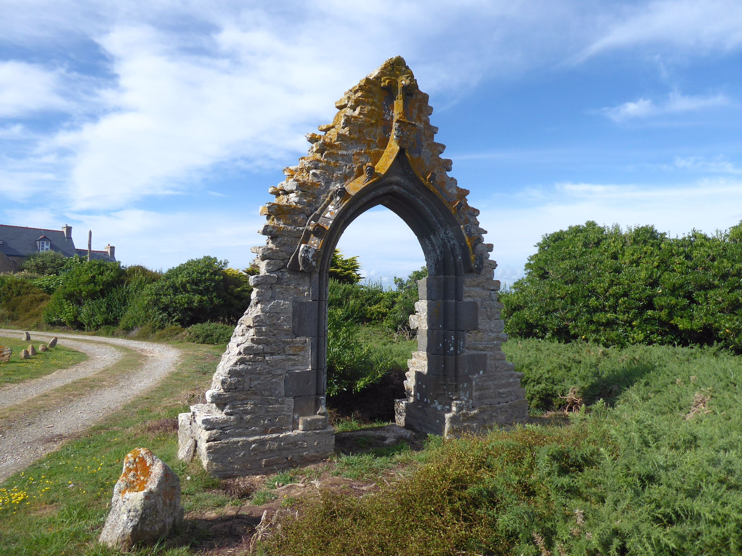 Gothic portal, Saint-Guénolé